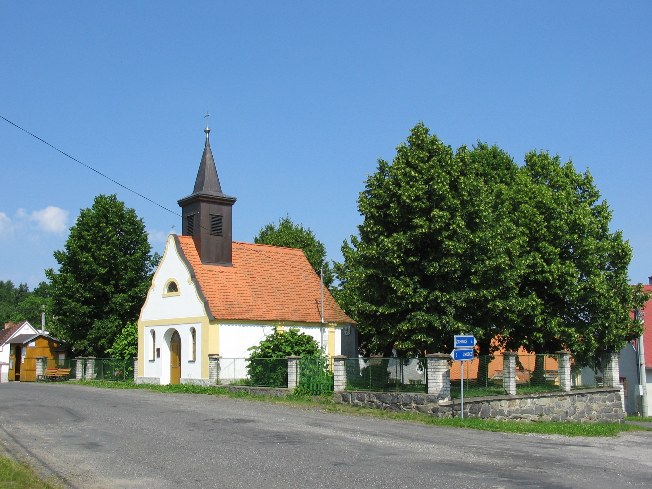 Chapel on the village square of Bílenice, Klatovy District, Czech Republic